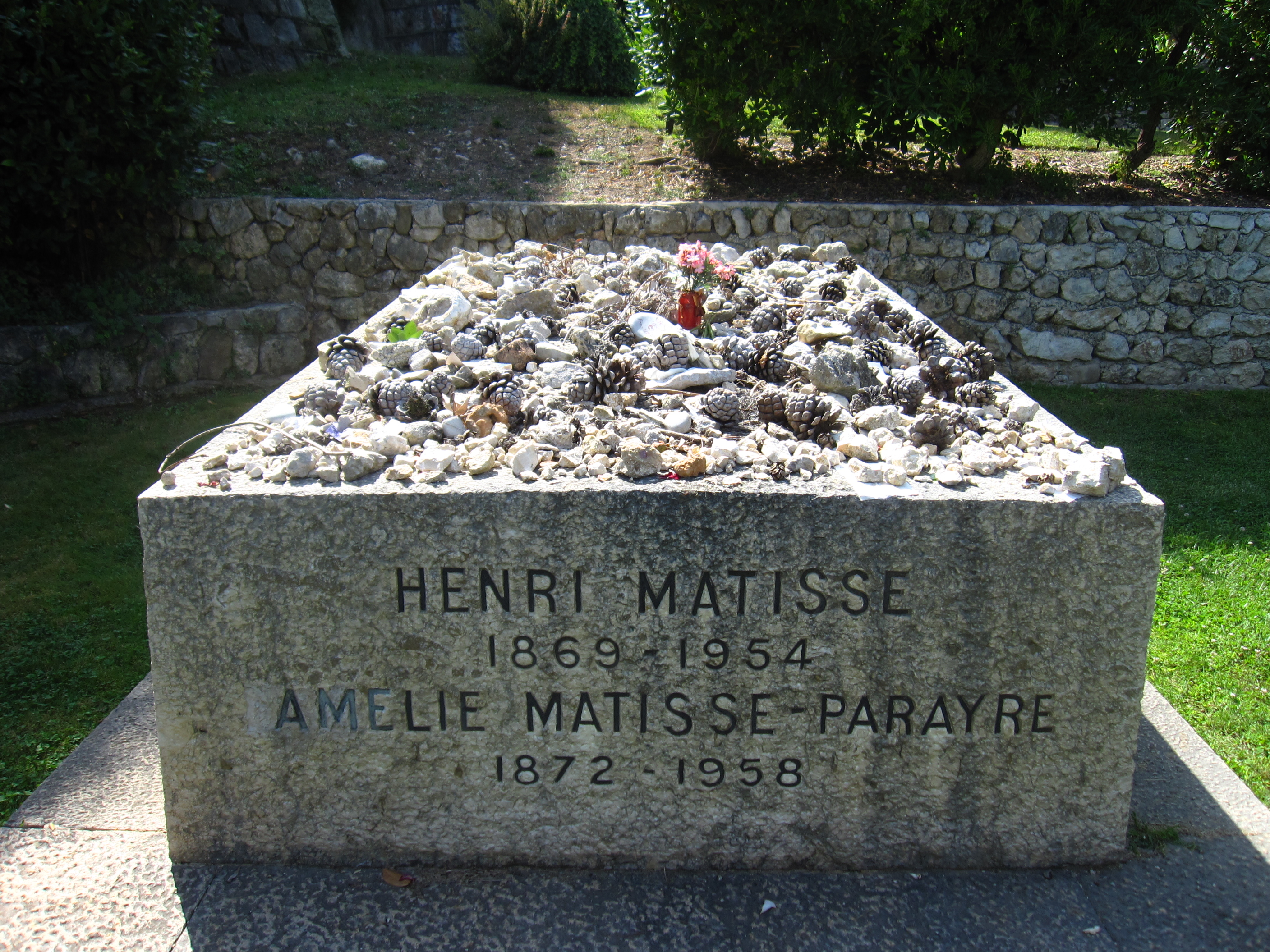 Henri Matisse's Grave in Nice